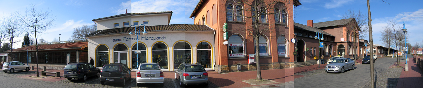 Train station in town of Bünde, District of Herford, North Rhine-Westphalia, Germany.